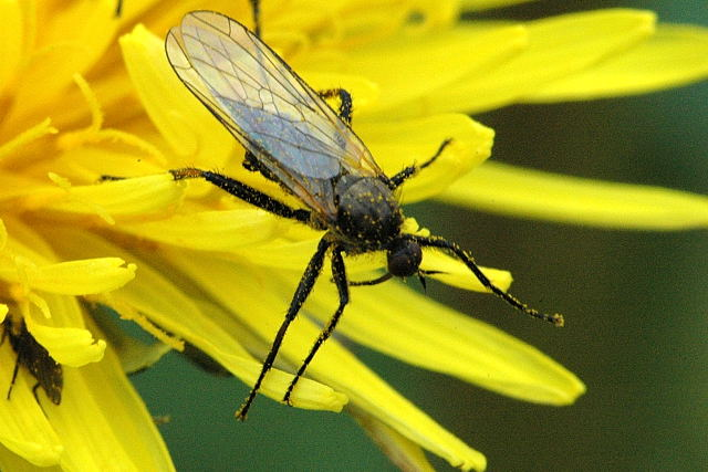 Empis bistortae from Commanster, Belgian High Ardennes .